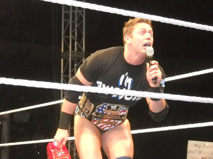 The Miz with a weird face